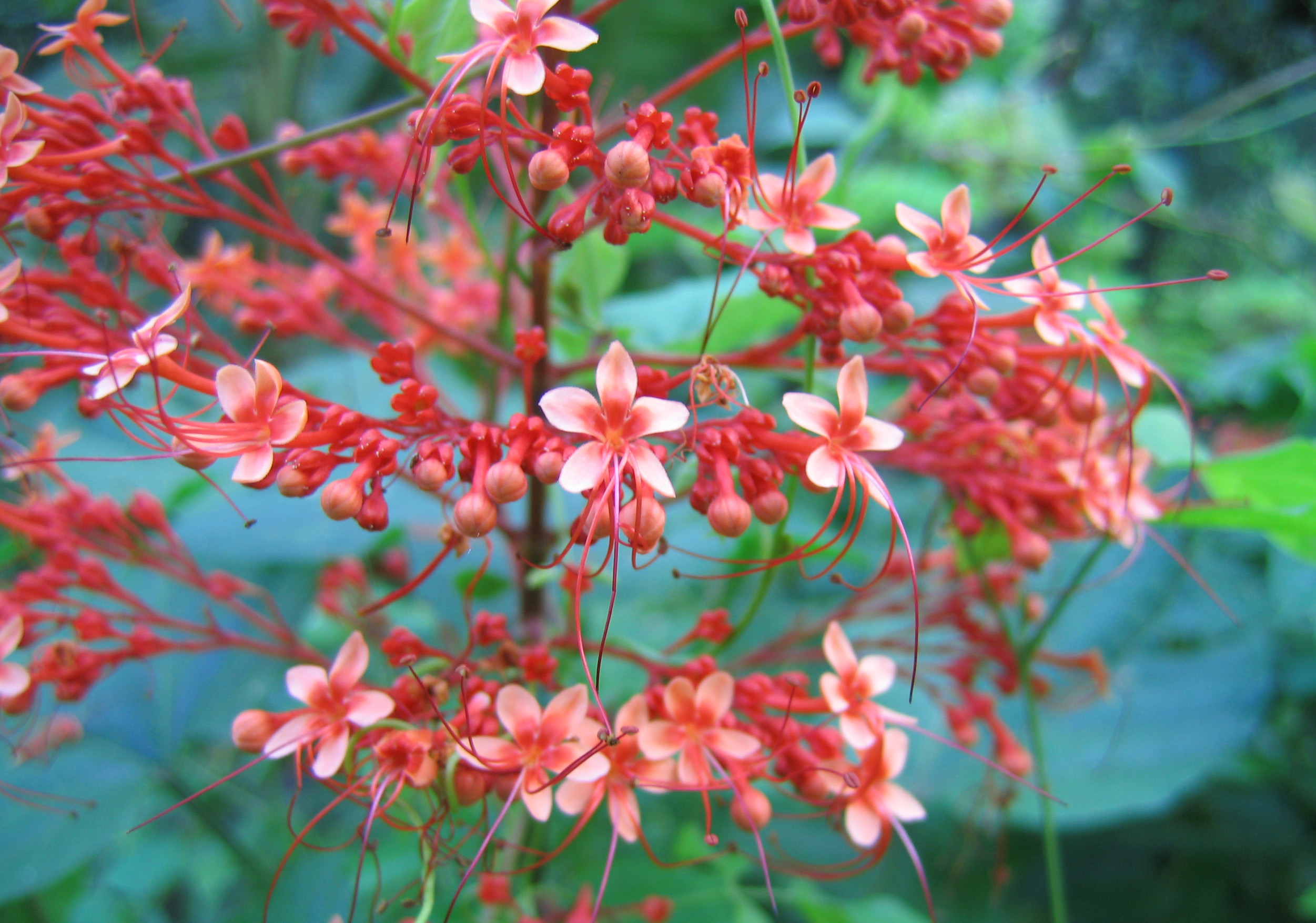 കൃഷ്ണകിരീടം, ഹനുമാൻ കിരീടം